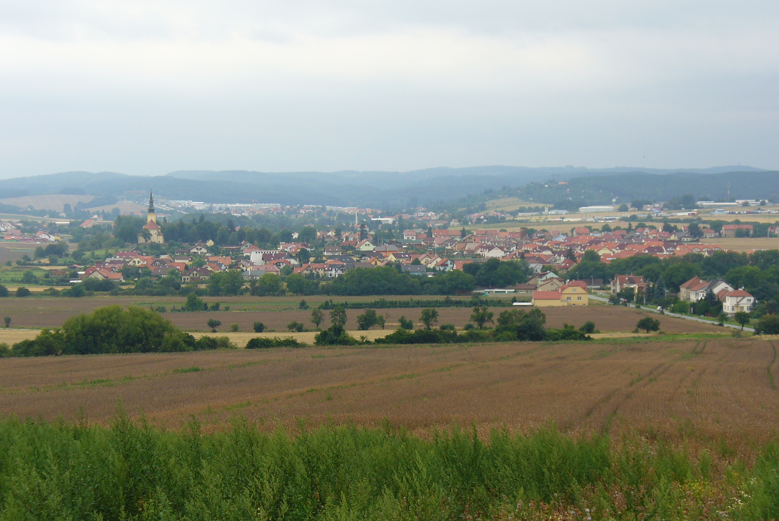 View on the village Troubsko (South-West parts) from hill near Old highway